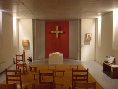 Chapelle de la Résurrection, Rue Maerlant, B-1040 Bruxelles (Crypte)